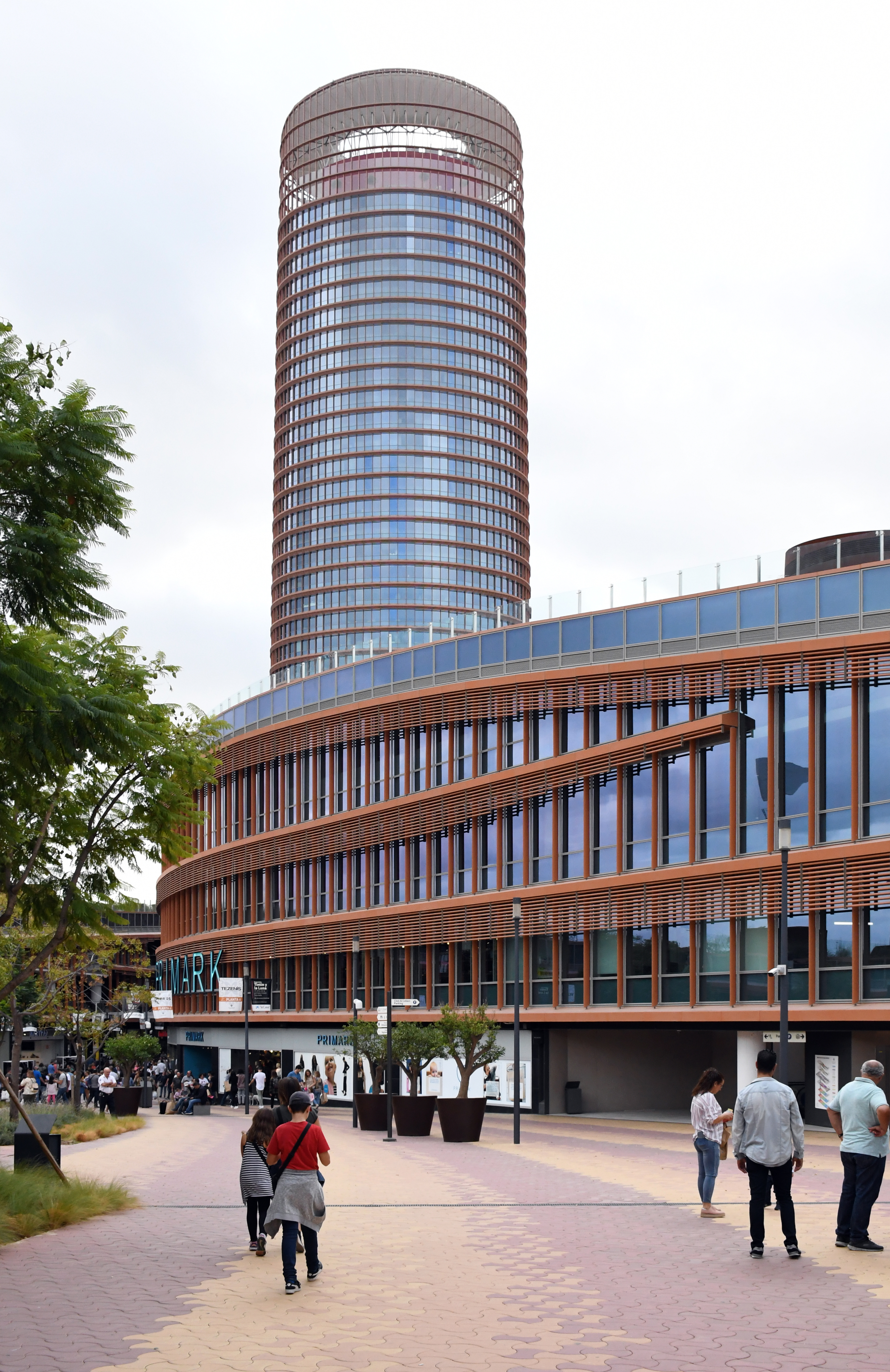 The Torre Sevilla shopping mall, in Seville (Spain) and the Sevilla Tower.